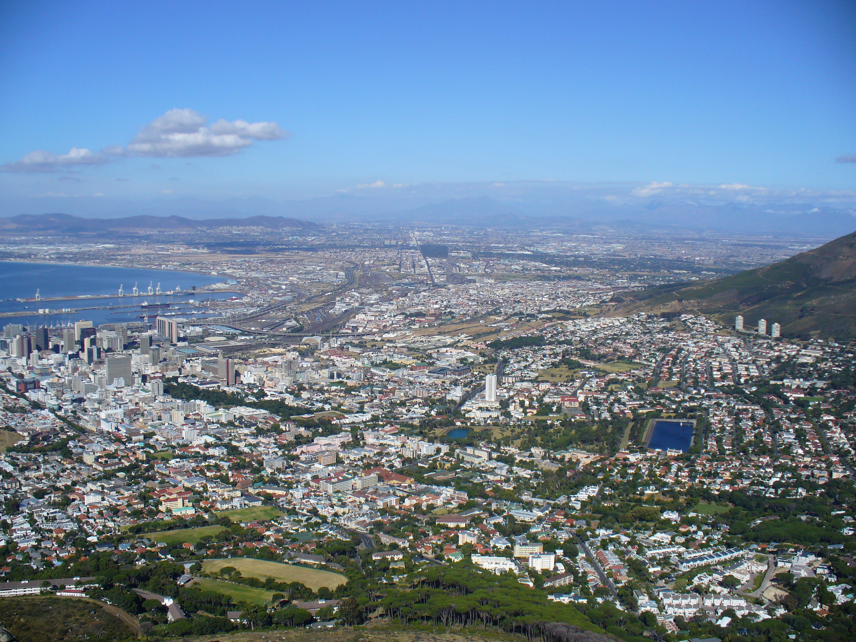 Greater Cape Town